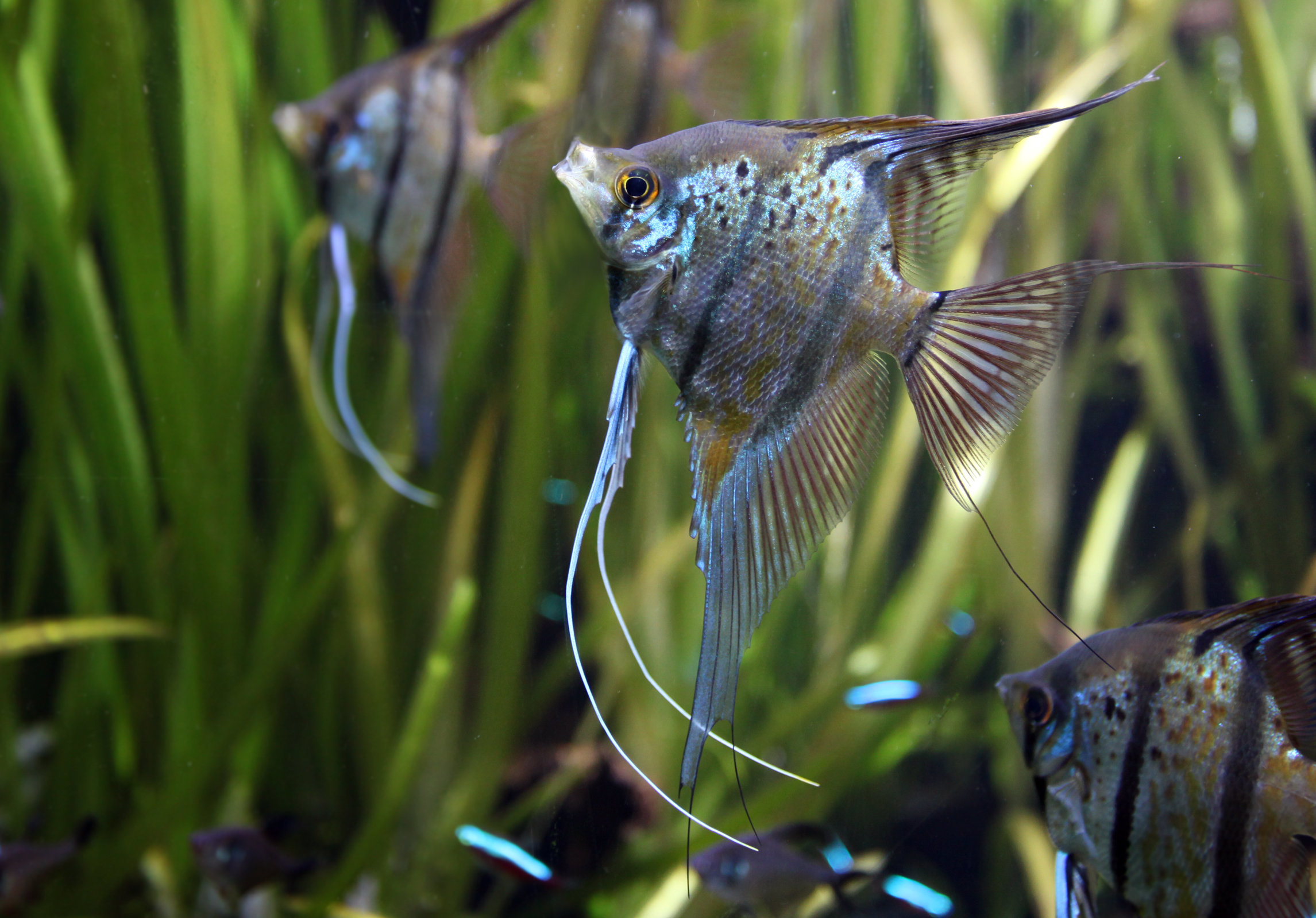 Pterophyllum scalare